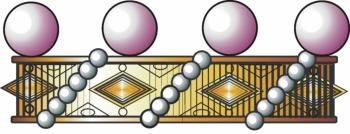 Spain Barons crown